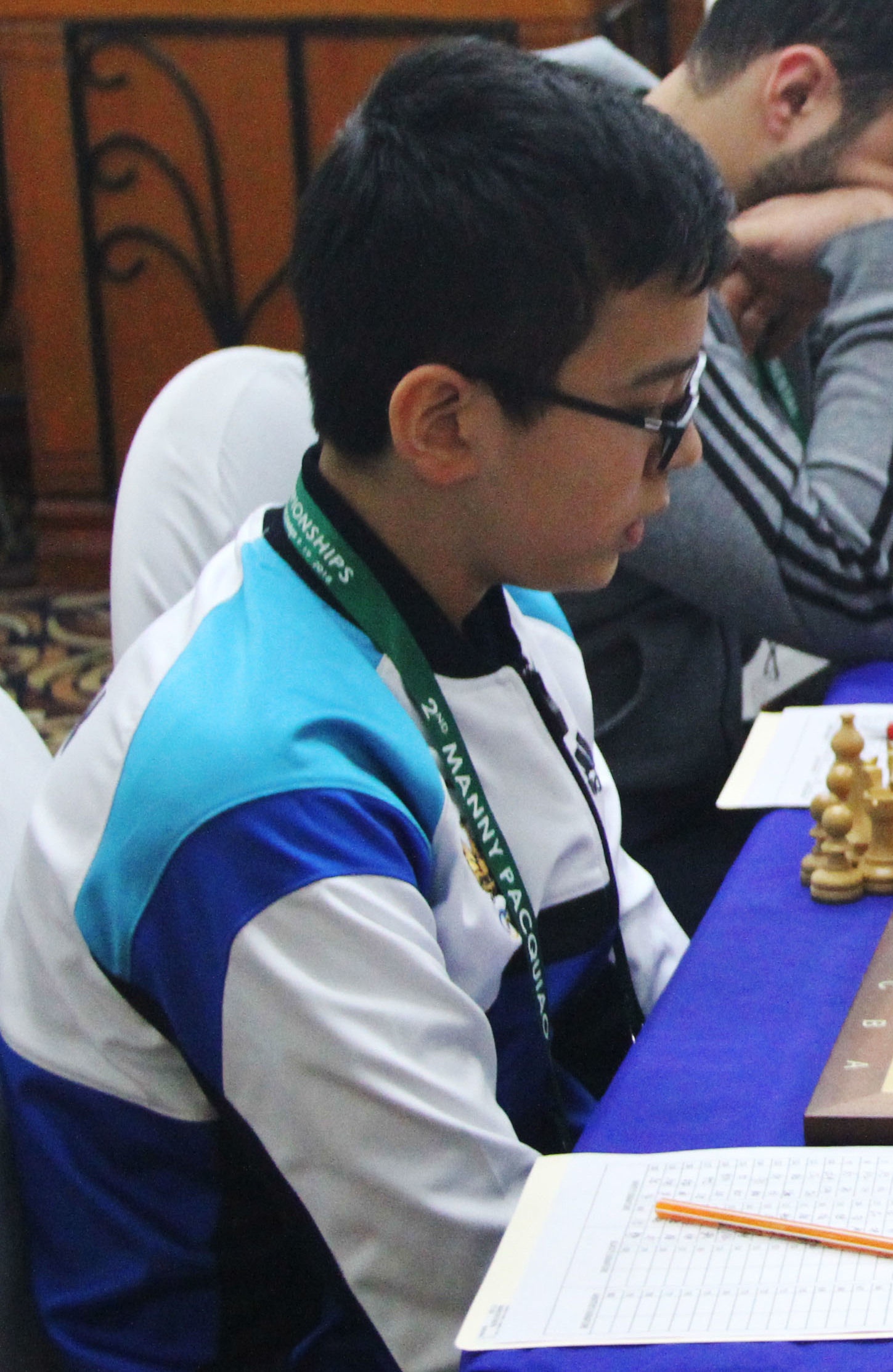 Grandmaster Nodirvek Abousattorov of Uzbekistan (left) scores a 1-0 win over Grandmaster Riwat Jumabayev in Round 6 of the 17th Asian Continental Chess Championships (2nd Manny Pacquiao Cup Open) at the Tiara Hotel in Makati City on Saturday (December 15, 2018).